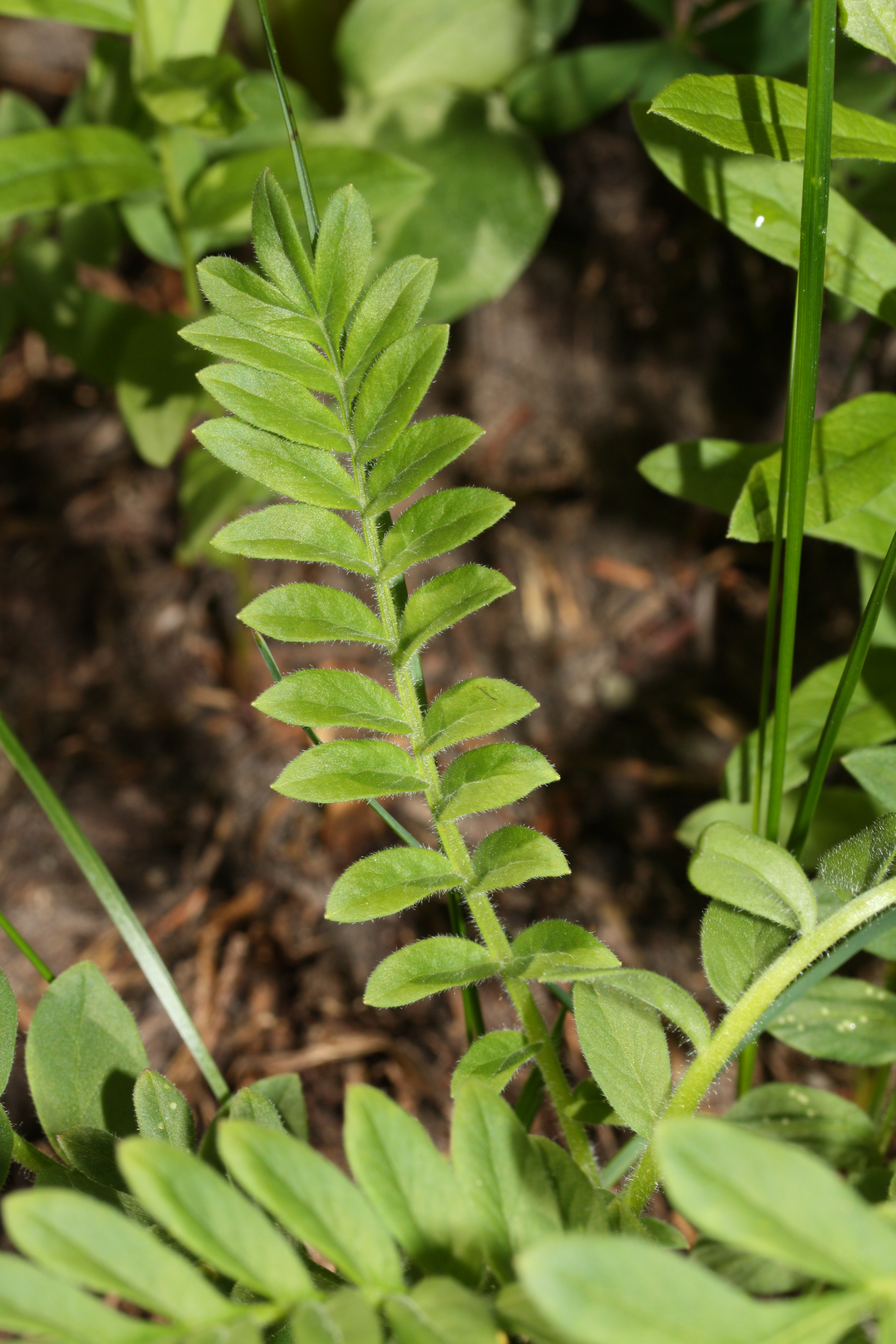 Moving Polemonium, Low Jacob's-ladder